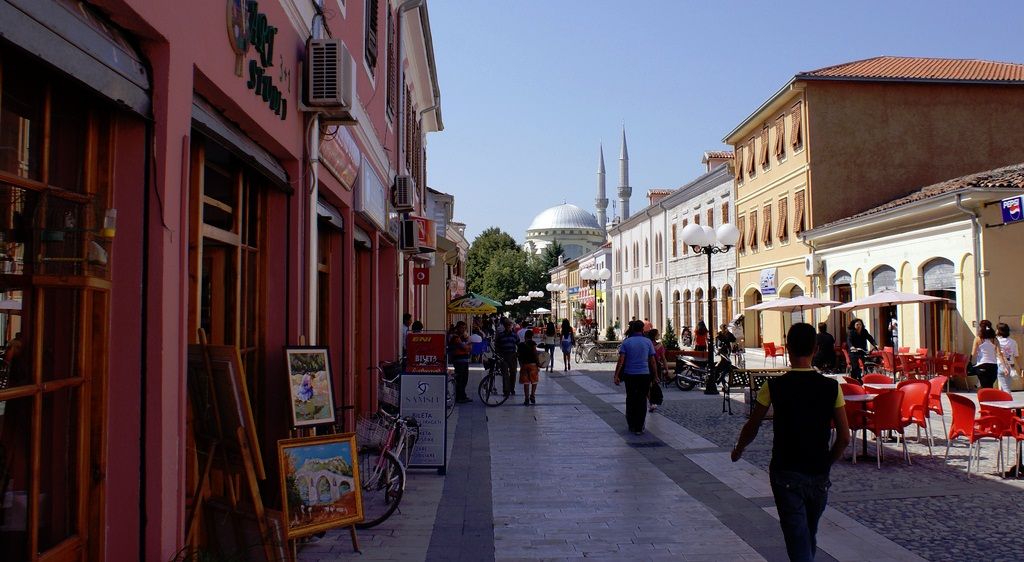 Rruga Kole Idromeno – pedestrial zone in the old part of Shkodra, Albania; background: Ebu Bekr Mosque